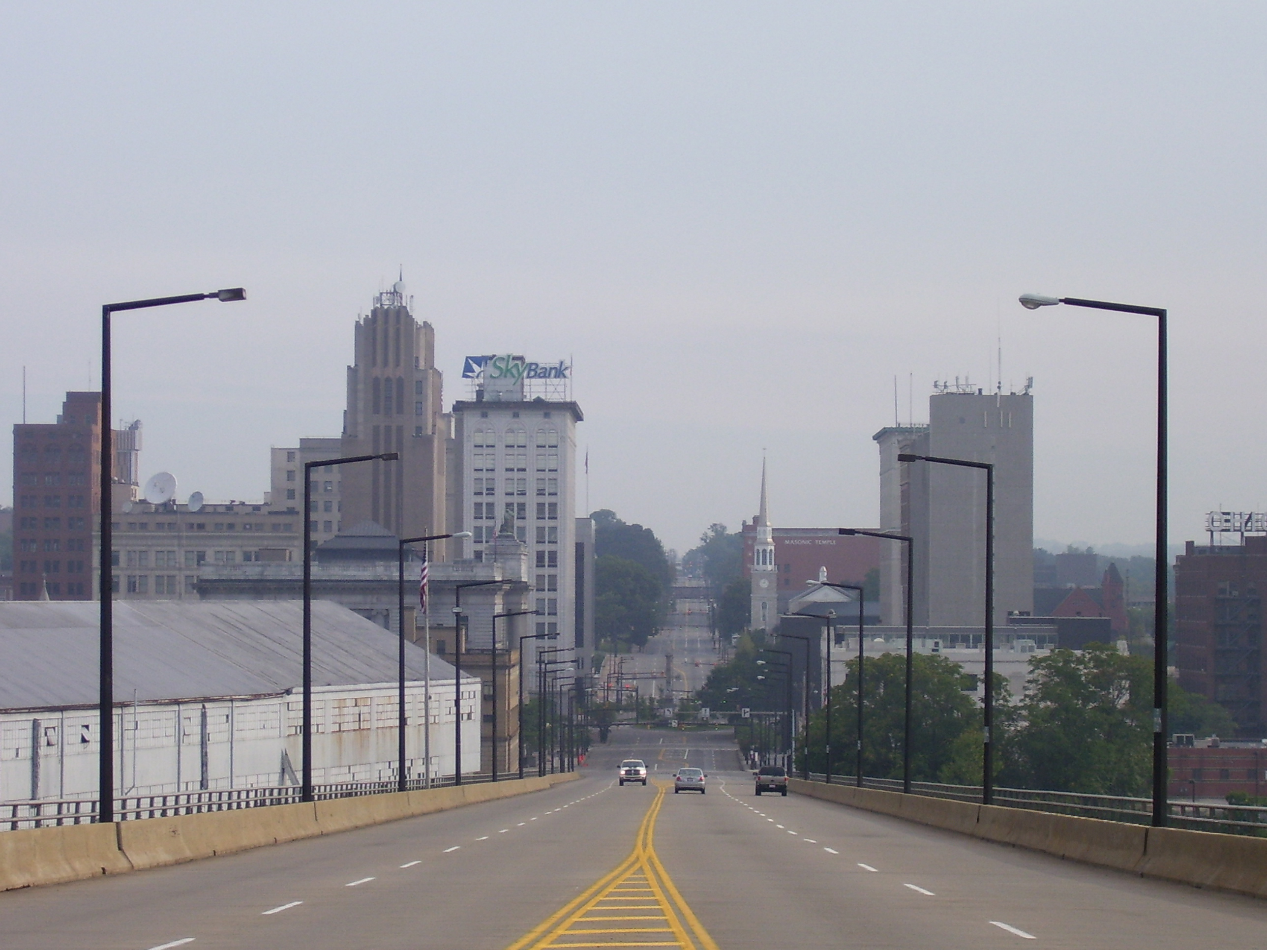 Downtown Youngstown, Ohio, looking North. I certify that I took this photo.